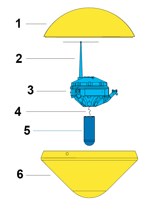 Deep Space 2 flight system